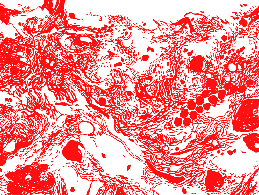 At the Creek III_ Oil on Canvas 150 x 200 cm 2015